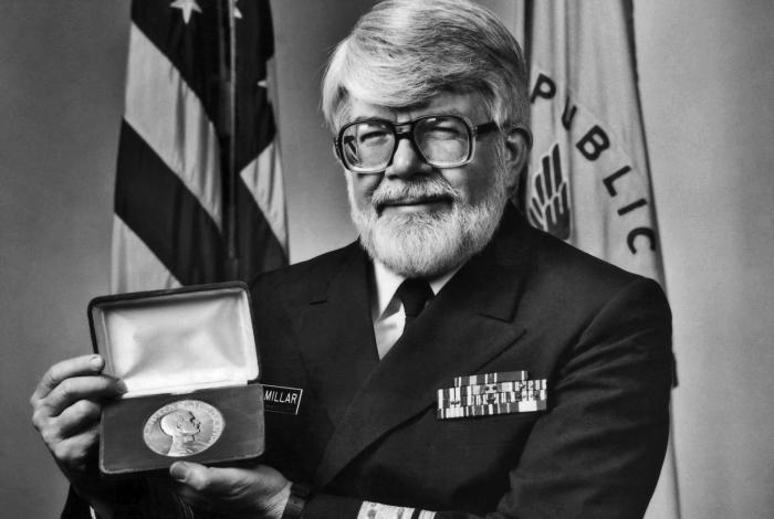 his was a photographic portrait of J. Donald Millar, M.D., M.P.H., receiving the Gorgas Medal for his achievements in preventive medicine. Dr. Millar is a physician trained in epidemiology with a wealth of experience in infectious disease control, as well as occupational and environmental health. He formerly served as Assistant Surgeon General and was Director of the National Institute for Occupational Safety and Health (NIOSH), for an unprecedented two terms from 1981-1993. Copyright Restrictions: None - This image is in the public domain and thus free of any copyright restrictions. As a matter of courtesy we request that the content provider be credited and notified in any public or private usage of this image